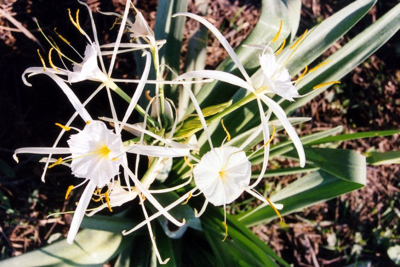 Hymenocallis occidentalis - Woodland, hammock, or northern spider-lily